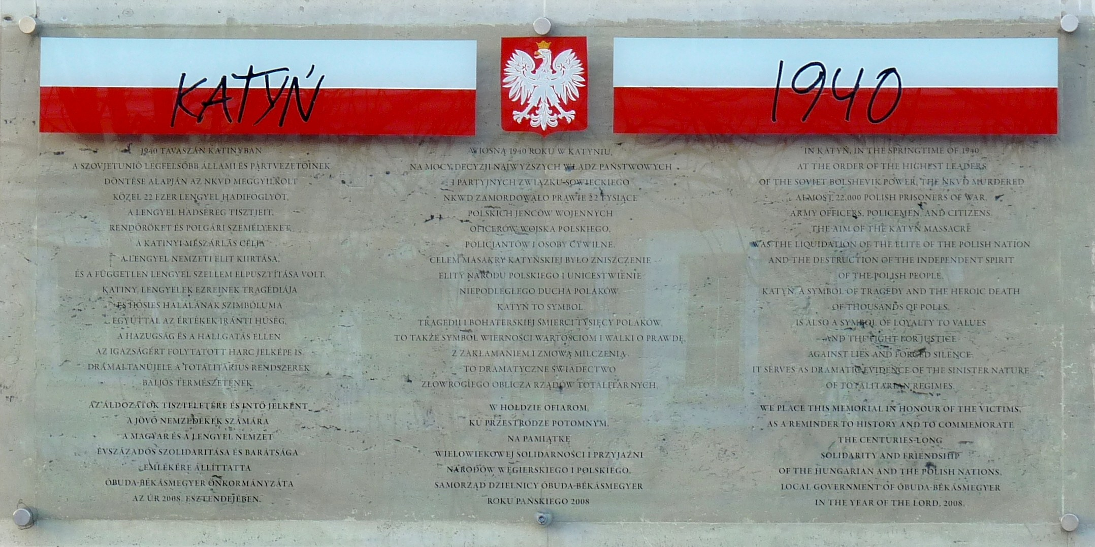 Trilingual commemorative plaque to the victims of the Katyń massacre in Óbuda affixed to the wall of the High School Árpád October 29, 2008. (Budapest, District III, Nagyszombat Street Nr 19).